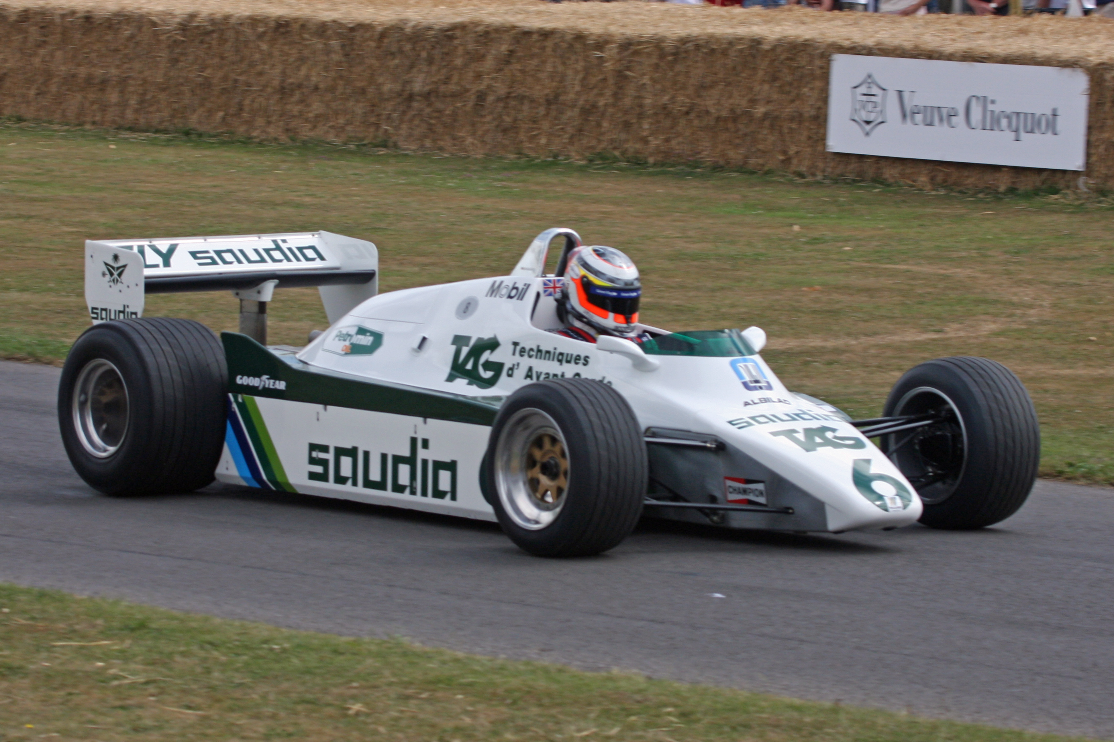 1982 Williams-Cosworth FW08